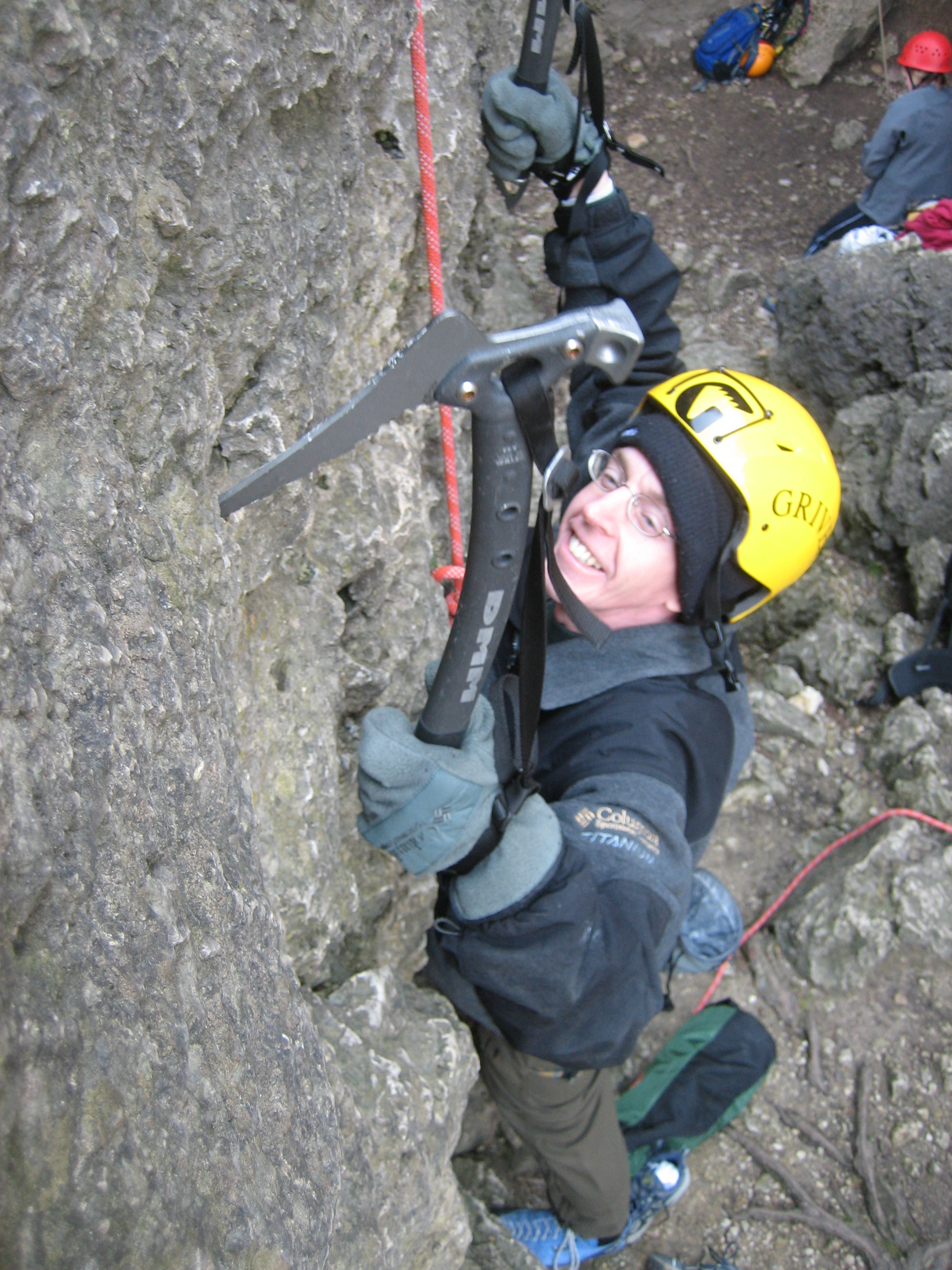 dry tooling (without crampons)